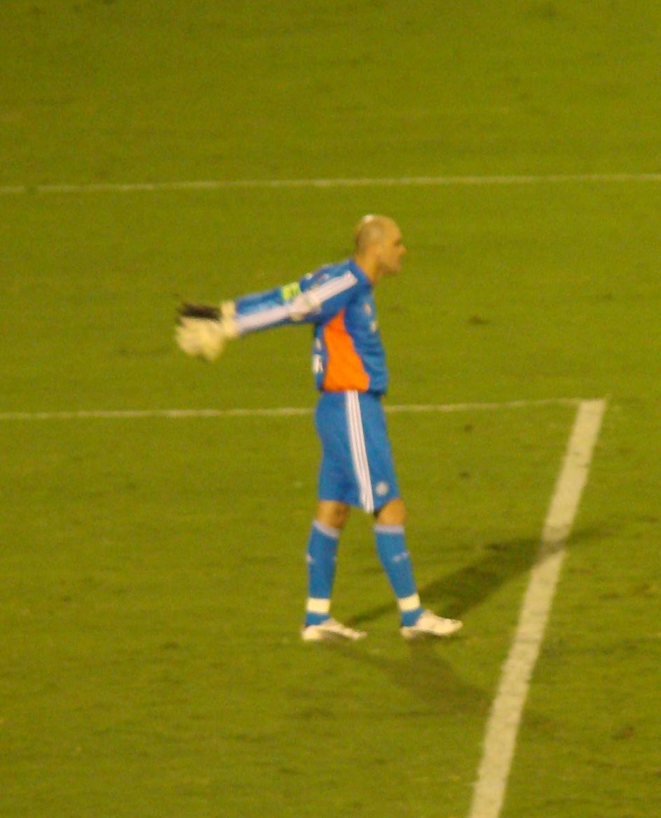 It's a picture of Marcos Roberto Silveira Reis, Palmeiras footballer, at Palestra Itália Stadium, in a match against Liga Deportiva de Quito in 2009 Taça Libertadores.